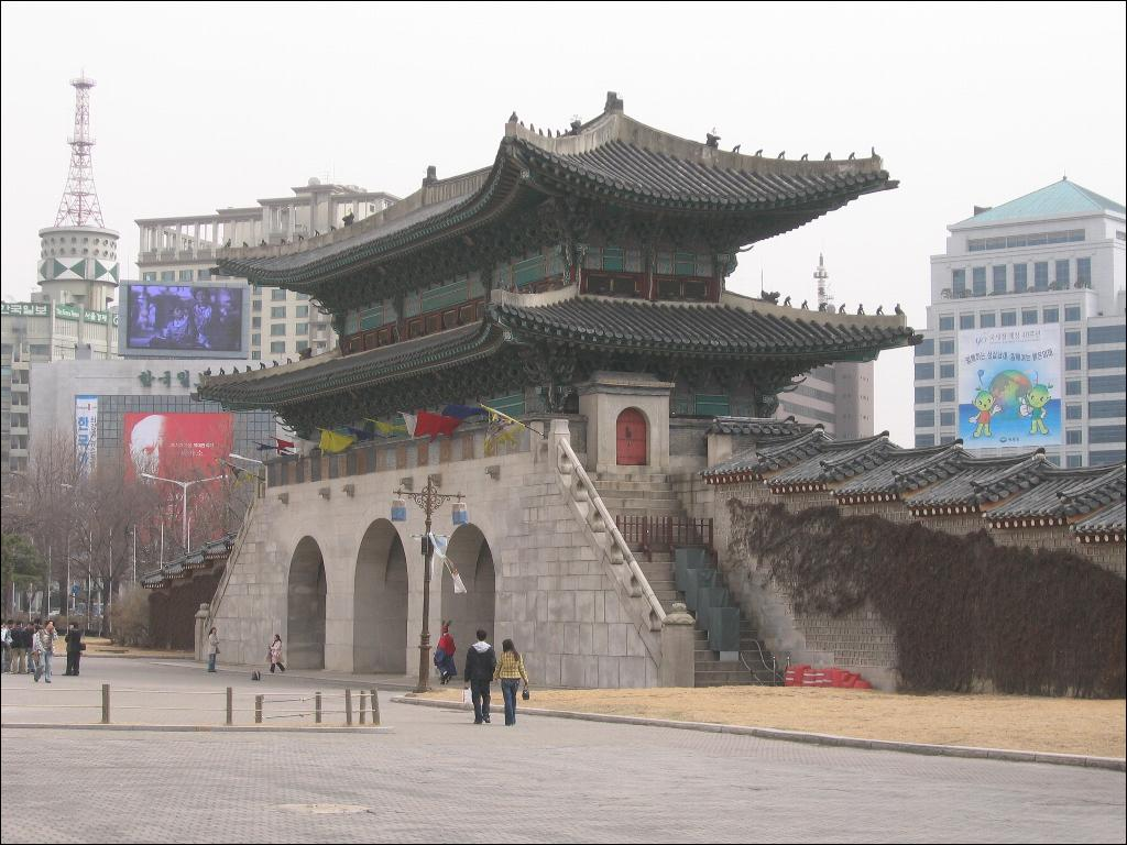 Gwanghwamun Gate (광화문) located in the Jongno-gu district, Seoul, South Korea